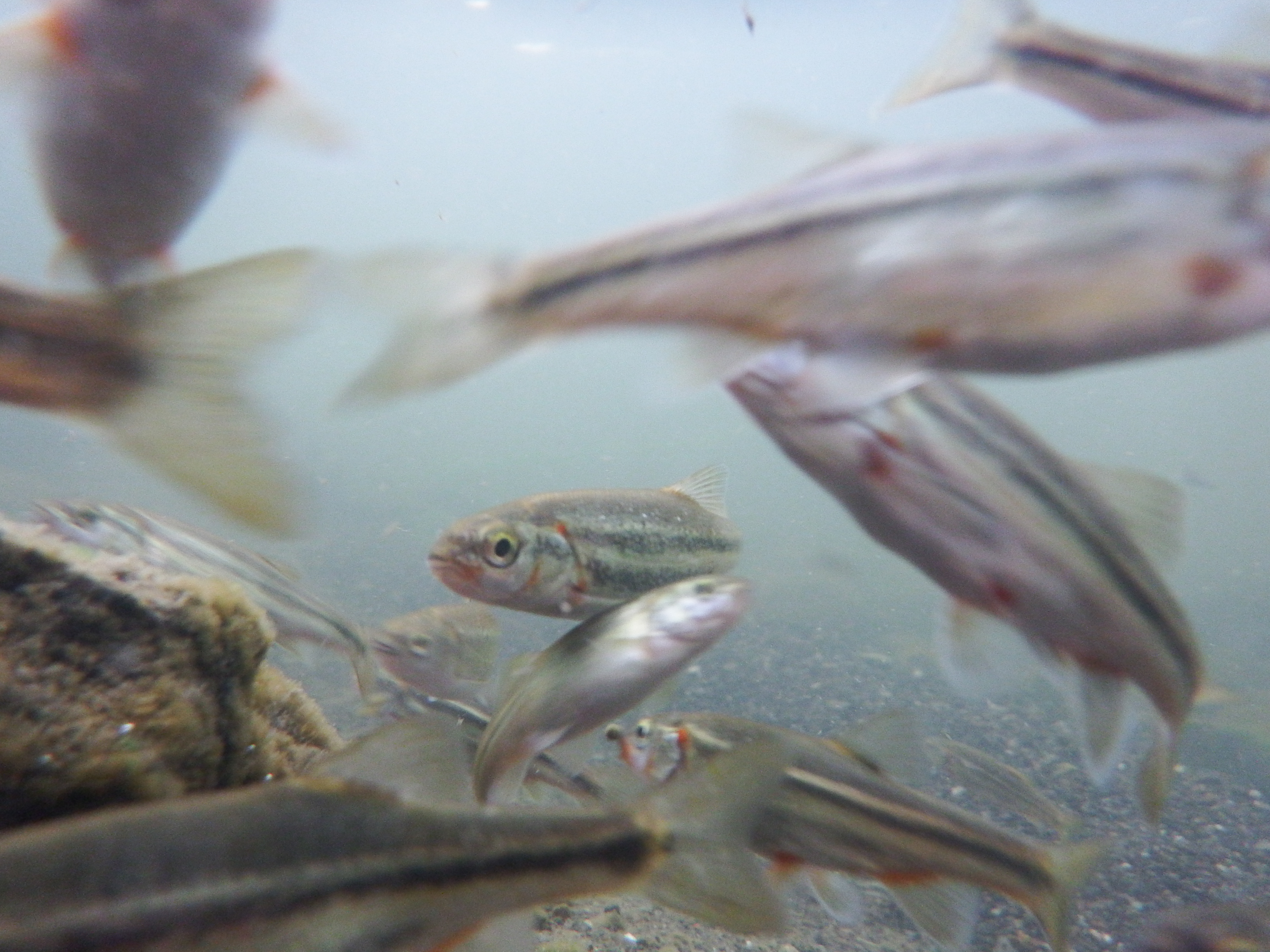 California Roaches in Bear Creek, Colusa County, California within the Berryessa-Snow Mountain National Monument.